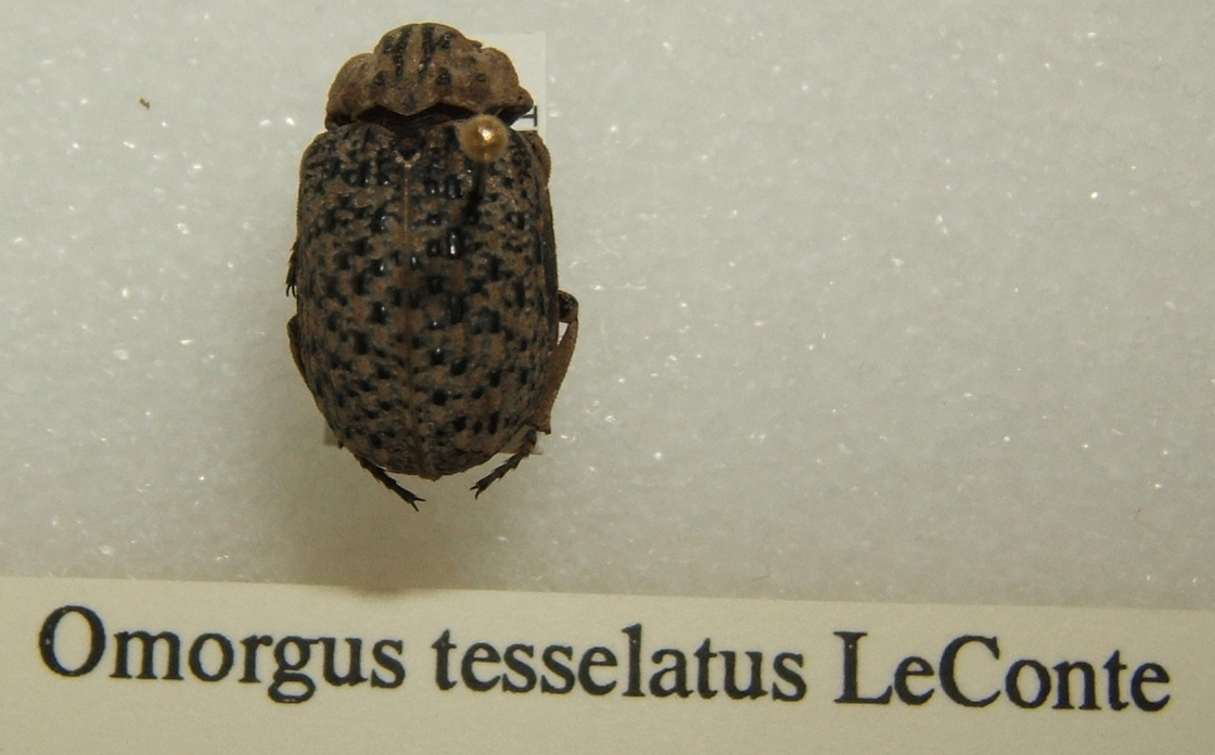 Omorgus tesselatus adult taken by Shawn Hanrahan at the Texas A&M University Insect Collection in College Station, Texas.